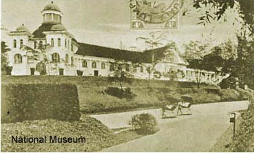 The Selangor Museum in Kuala Lumpur, today National Museum.